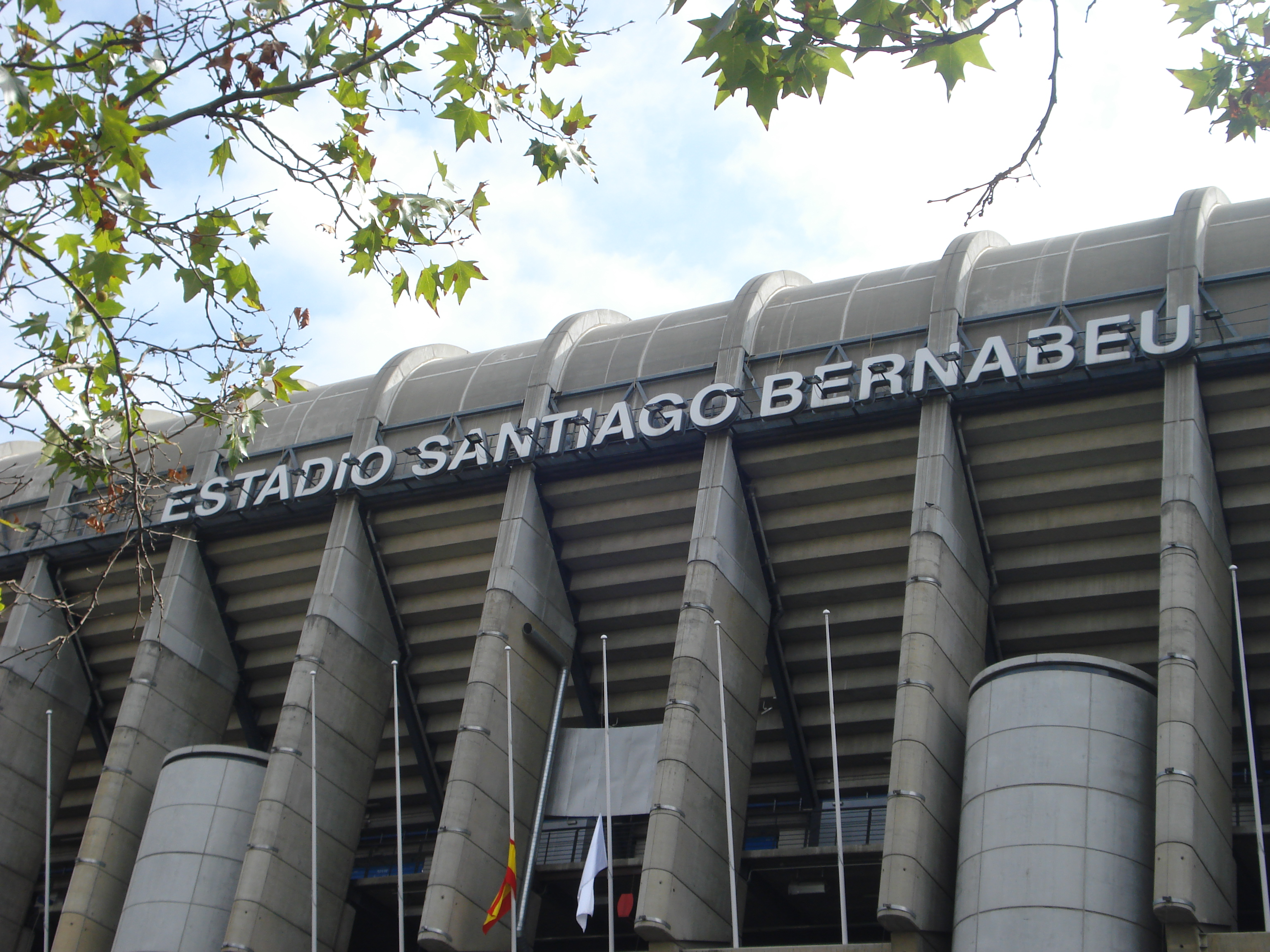 Santiago Bernabeu